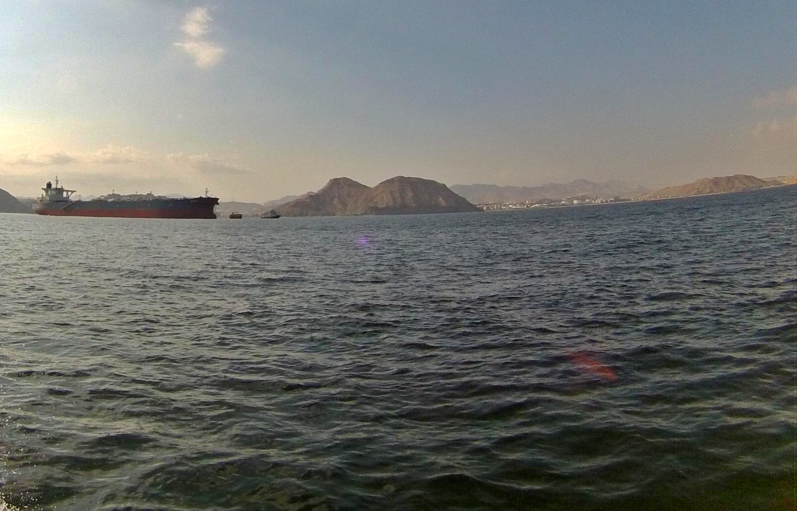 Mina al Fahal from sea with an oil tanker in front